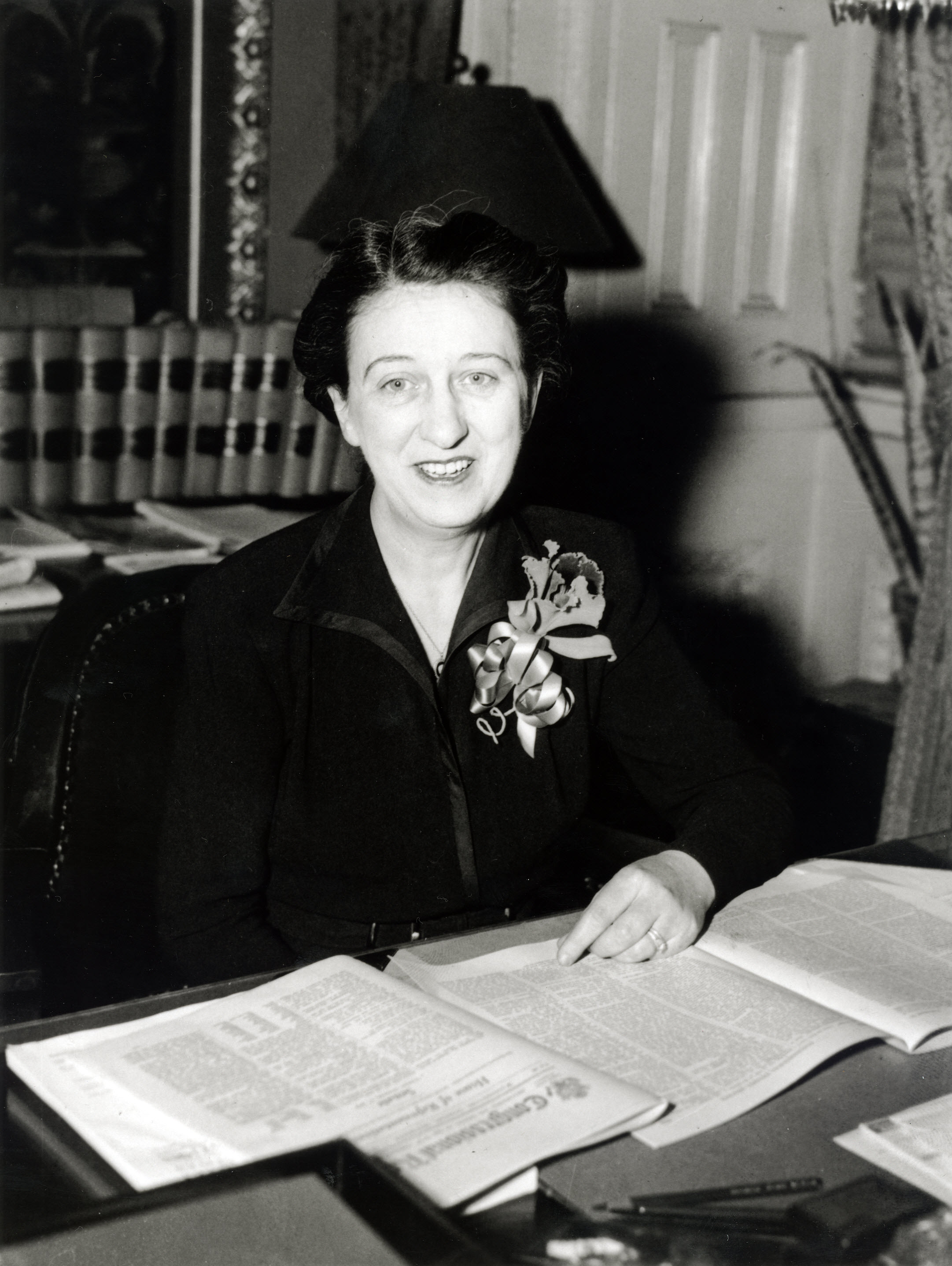 former Congresswoman Veronica Boland of Pennsylvania.